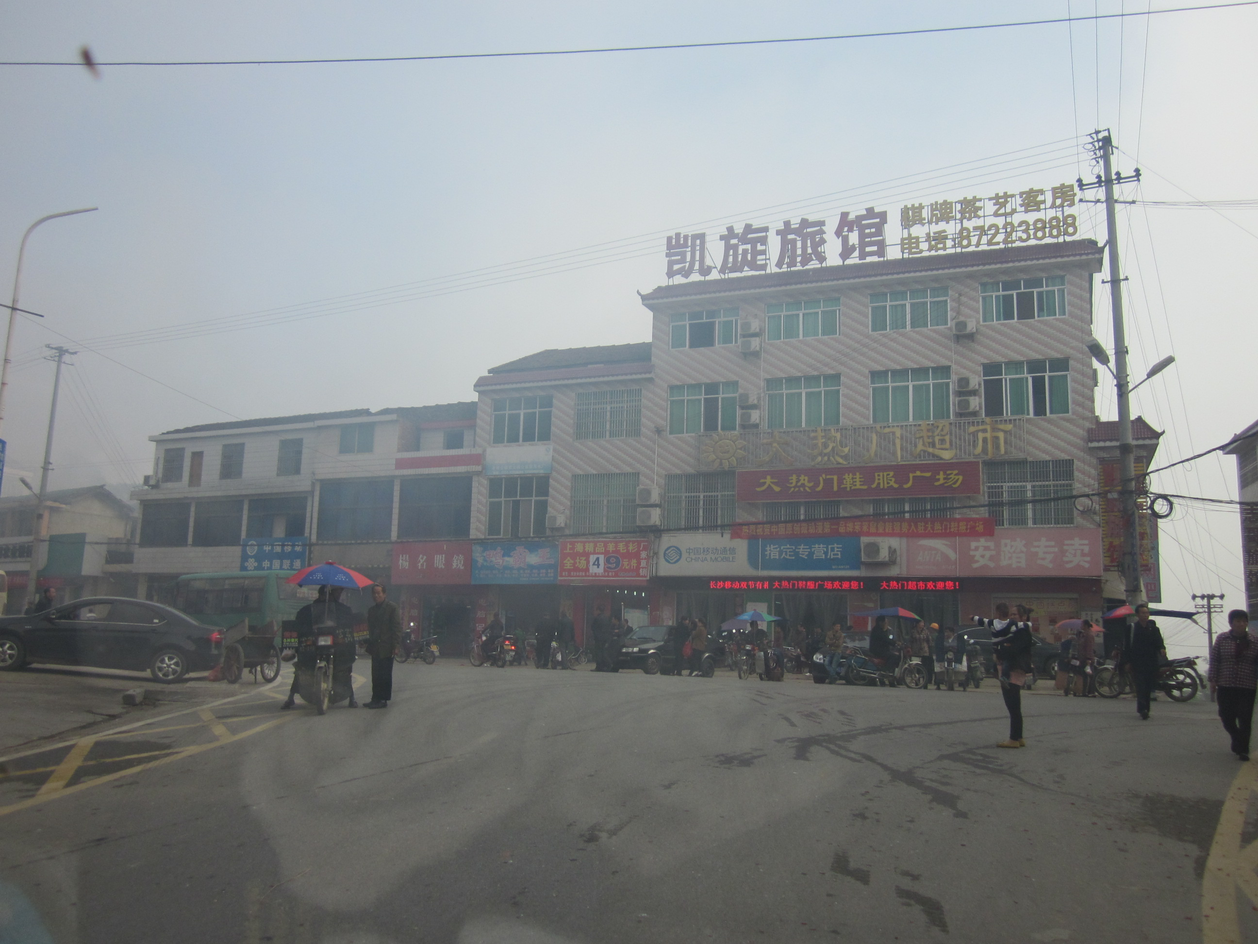 Laoliangcang Town (simplified